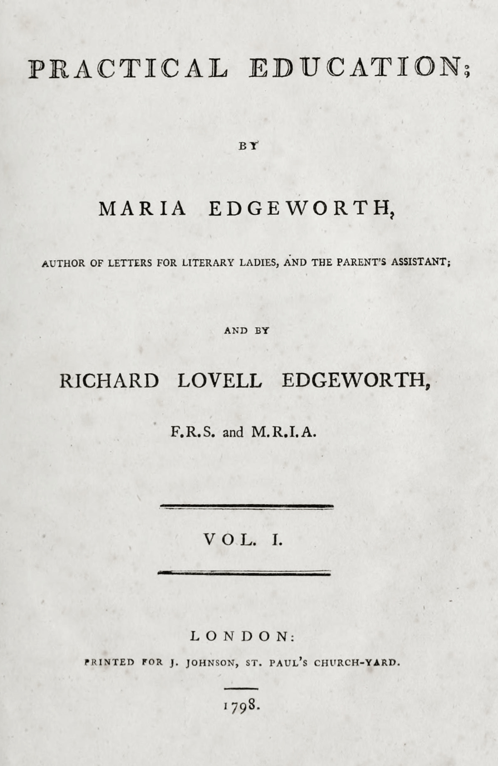 Practical Education 1st ed title pg